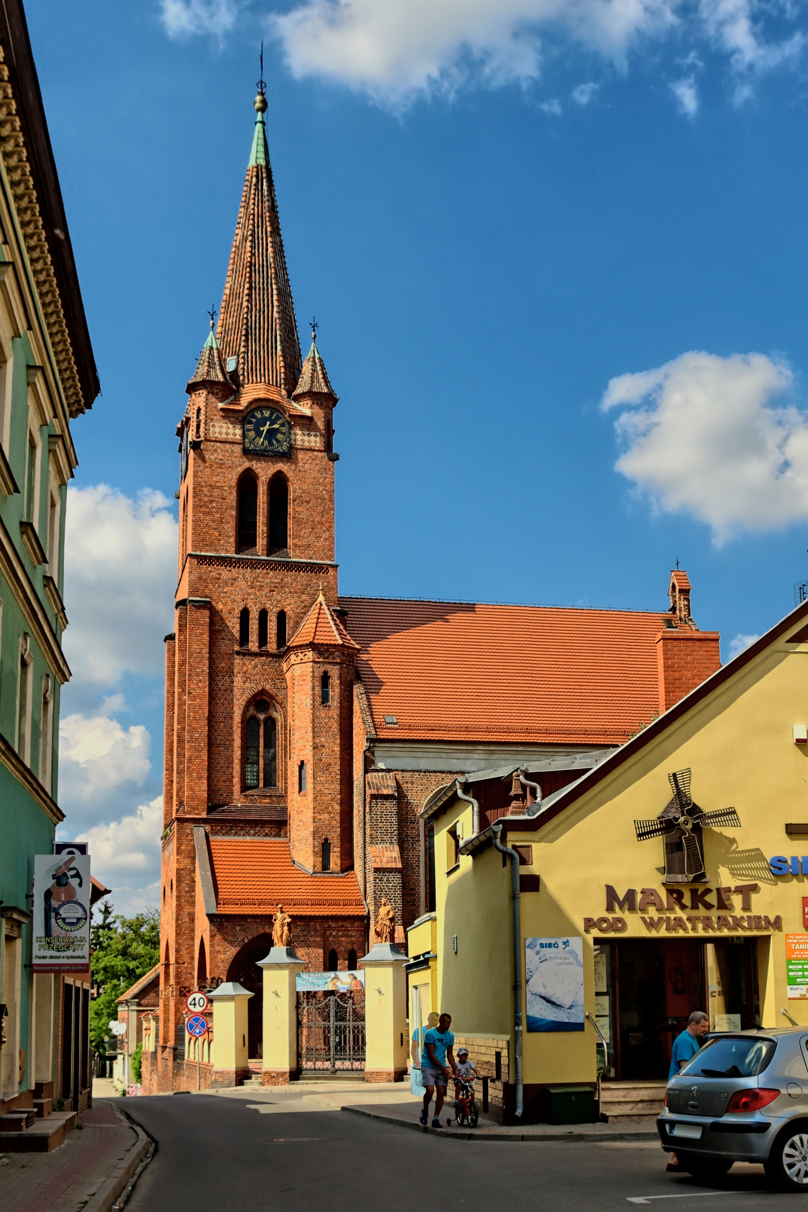 Church of the Assumption of Blessed Virgin Mary in Śmigiel